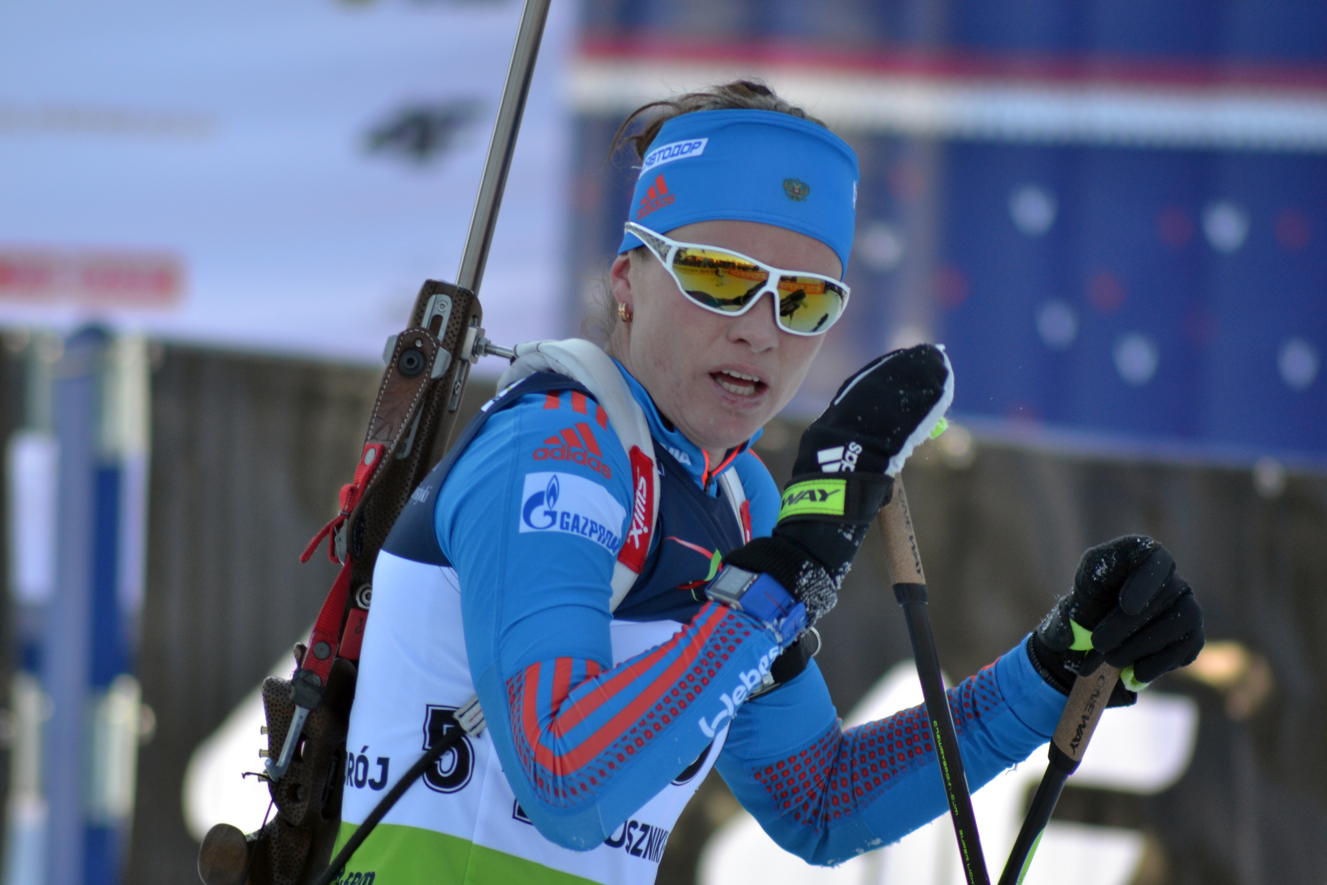 Open European Championships Biathlon 2017, Sprint Women's race, held on January 27th.